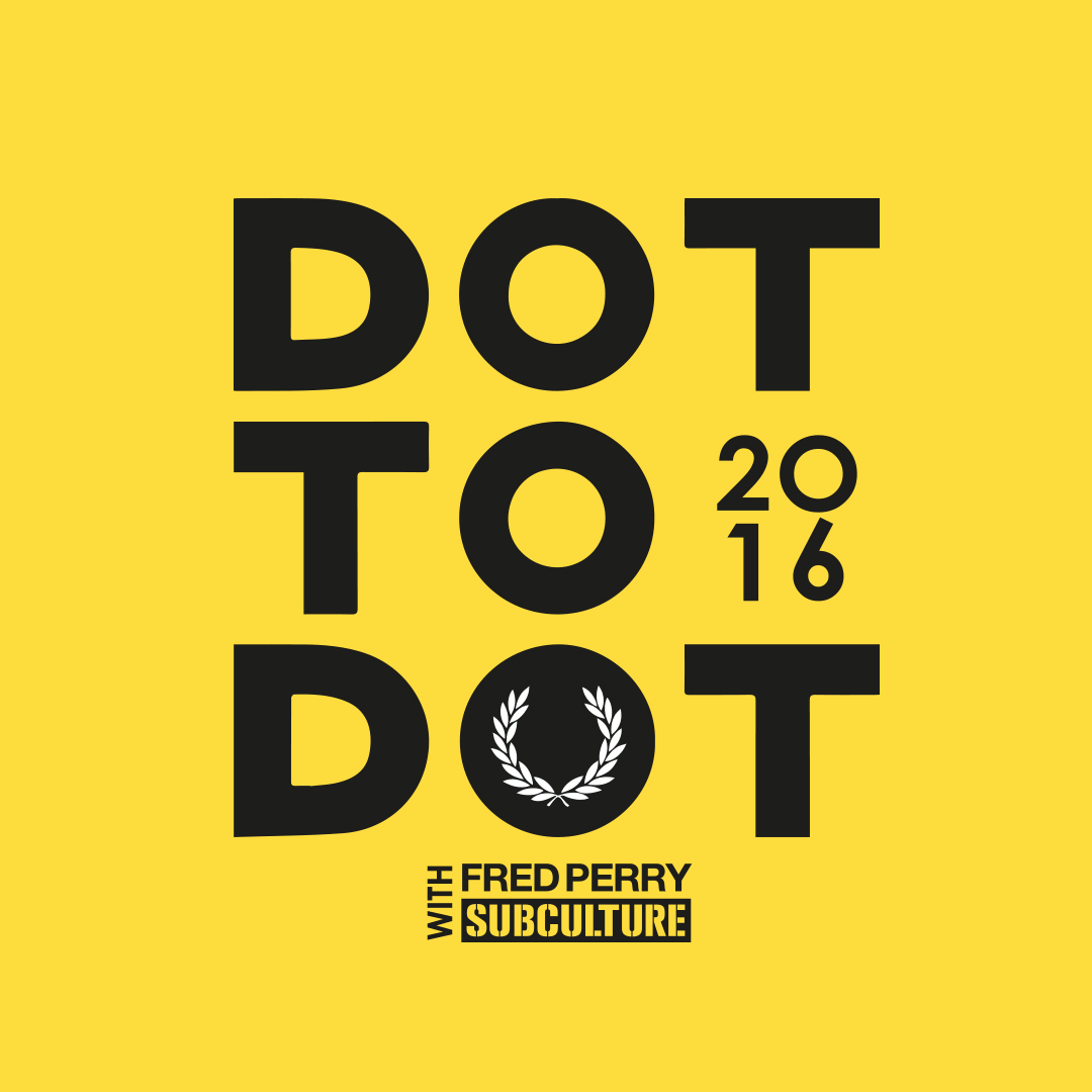 Dot To Dot 2016